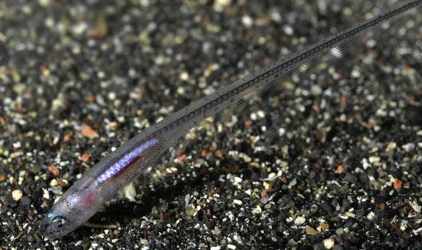 Carapus acus photographed in Sicilian waters (southern Italy). Photo by Alessandro Pagano.